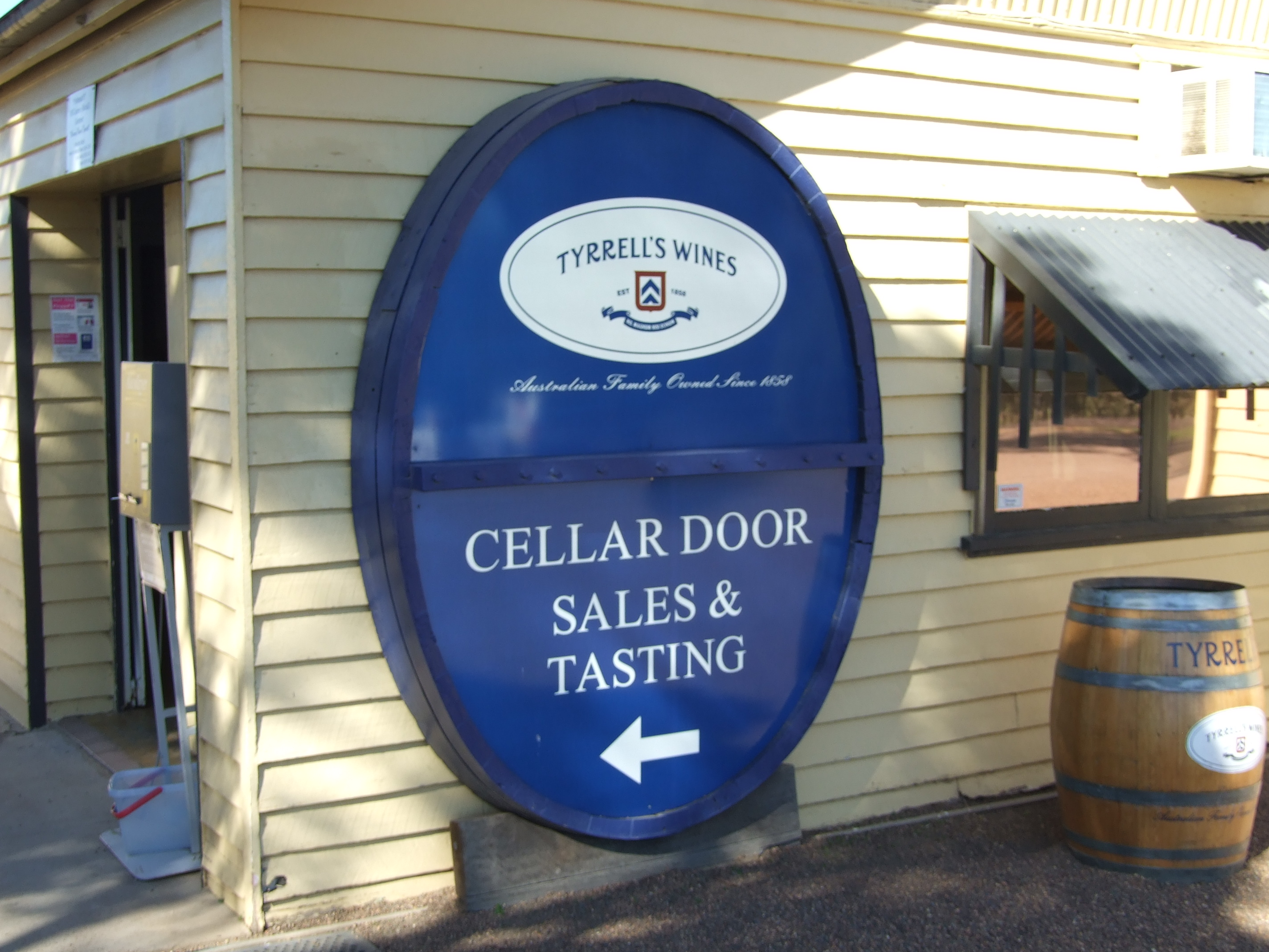 An example of the Australian cellar door in the New South Wales Wine region of the Hunter Valley.